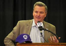 Holy Cross Press Conference